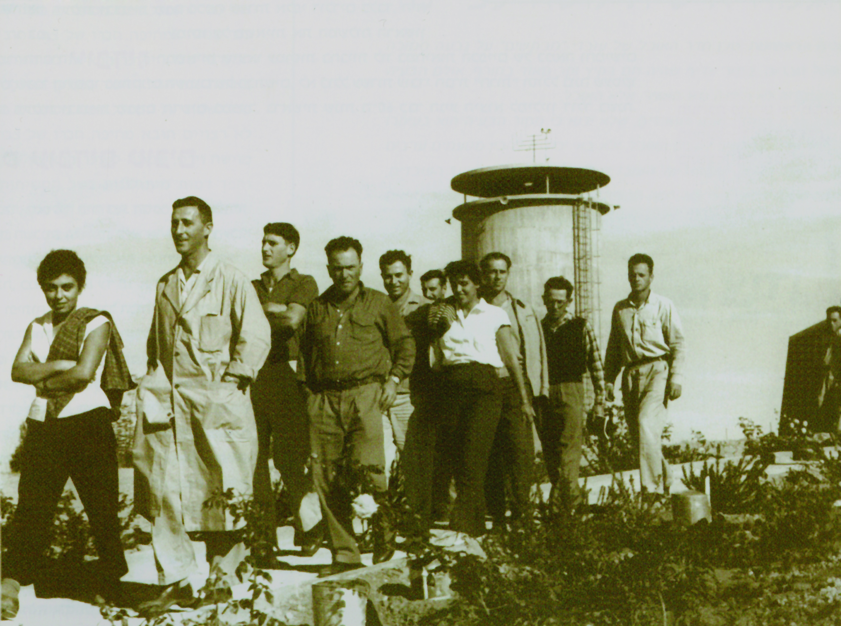 Israel, the founders of the Makhteshim plant.